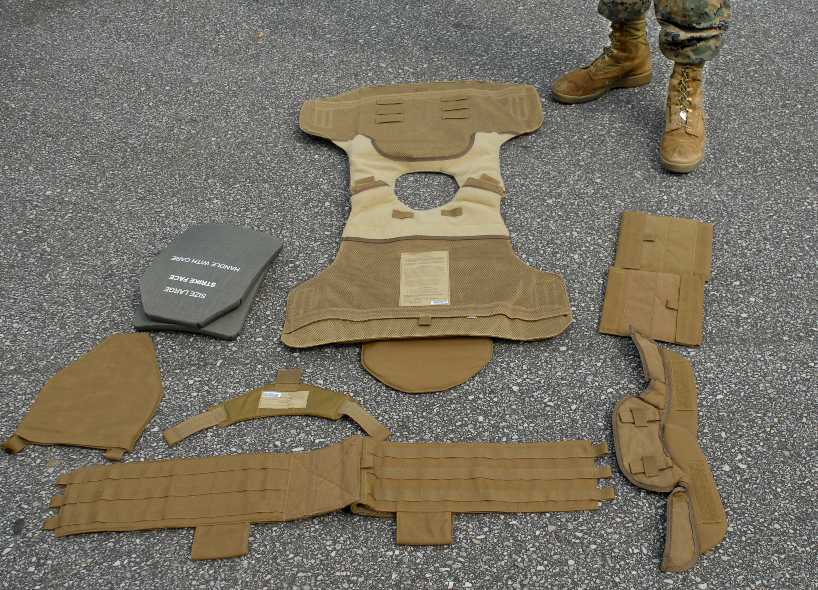 'Modular Tactical Vest (MTV) is the United States Marine Corps body armor being deployed in 2006: The Modular Tactical Vest comes with several components that Marines have to carefully configure and maintain. The MTV, which doubles as body armor and load-bearing vest, features many improvements over the Outer Tactical Vest currently fielded to most Marine units. A quick-release mechanism allows Marines to get out of the vest hastily in emergency situations and allows for immediate medical access. The vest provides more protection from shrapnel in the lower back and kidney area and protects the side torso area from bullets thanks to the integration of side armor plate carriers. The integrated cummerbund provides the improved load carriage and weight distribution.